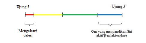 beta-galactosidase enzyme with deleted alpha subunit